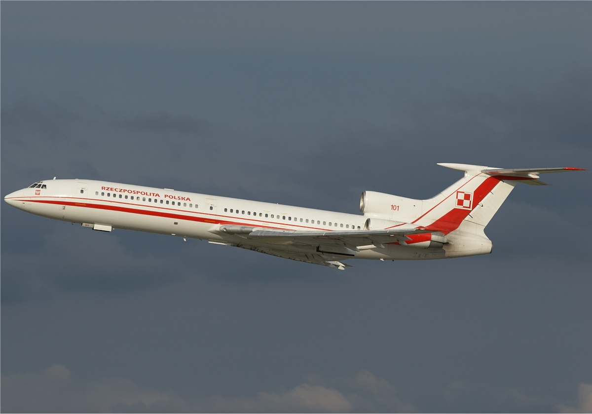 Polish Air Force Tupolev Tu-154 taking off from Kiev Borispil Airport on 5 June 2008